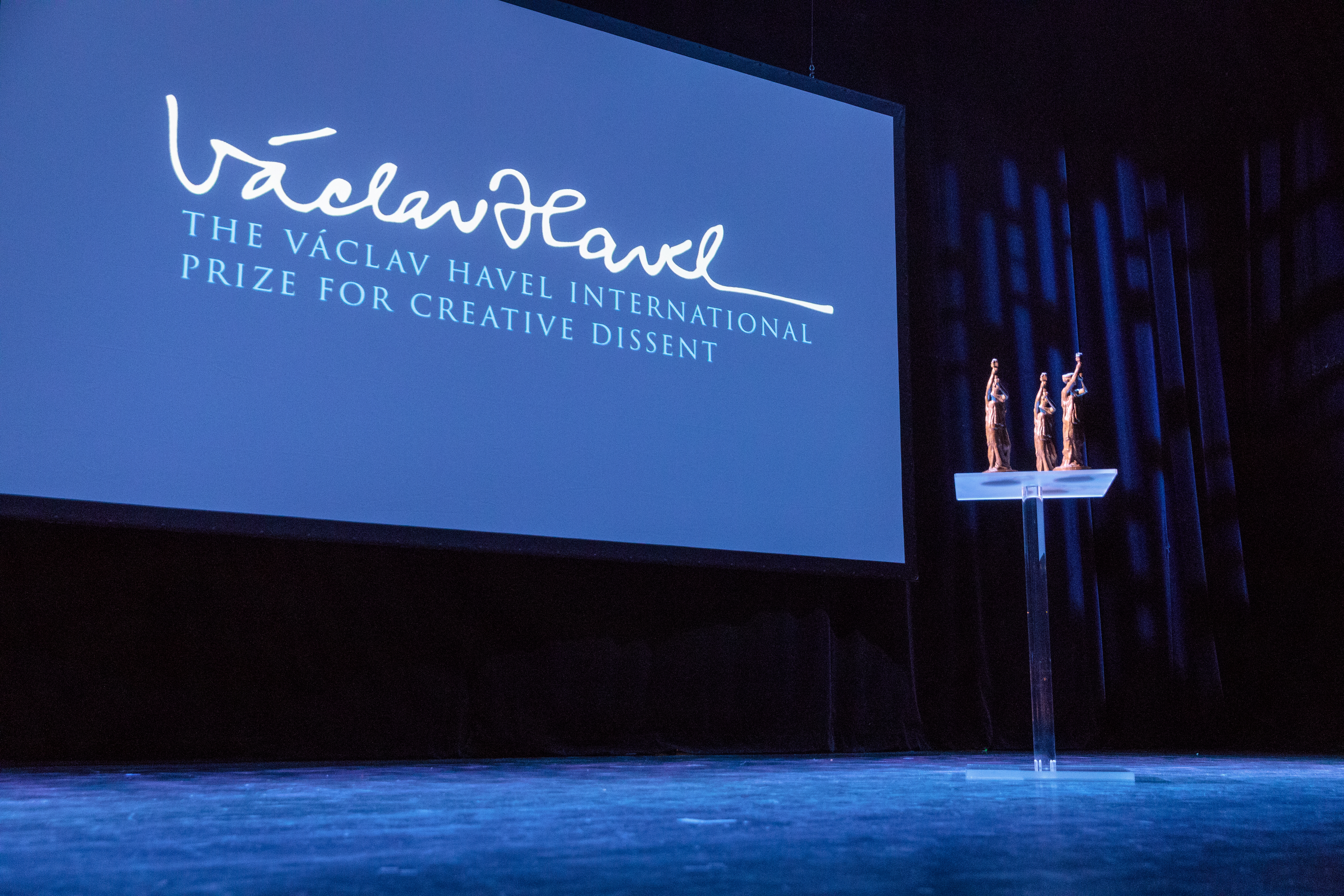 Award ceremony for the 2018 Václav Havel International Prize for Creative Dissent.